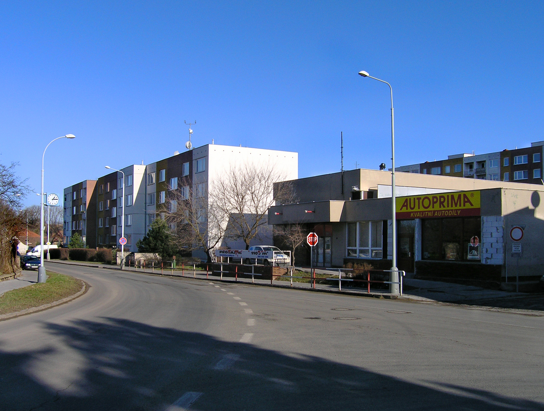 Polabská street in Miškovice, Prague